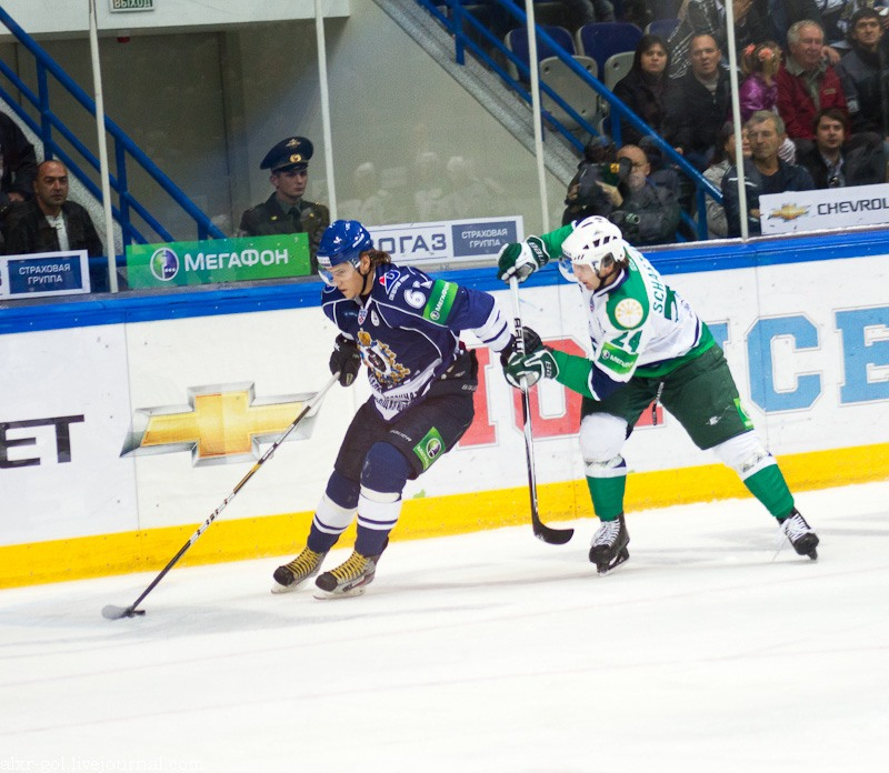 Amur Khabarovsk forward Sergei Plotnikov (in blue) and Salavat Yulaev Ufa forward Petr Schastlivy during KHL game on September 23, 2011.